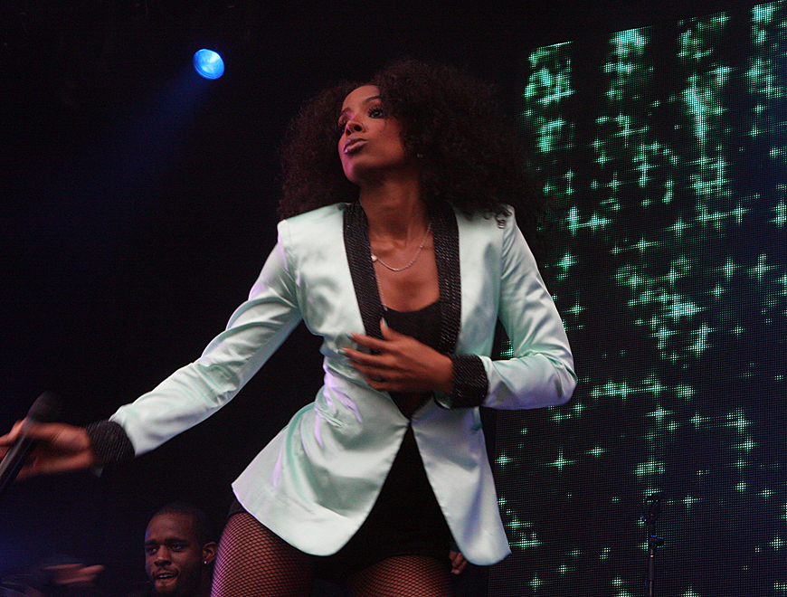 Kelly Rowland Performs at Supafest 3 Sydney, Australia 2012.